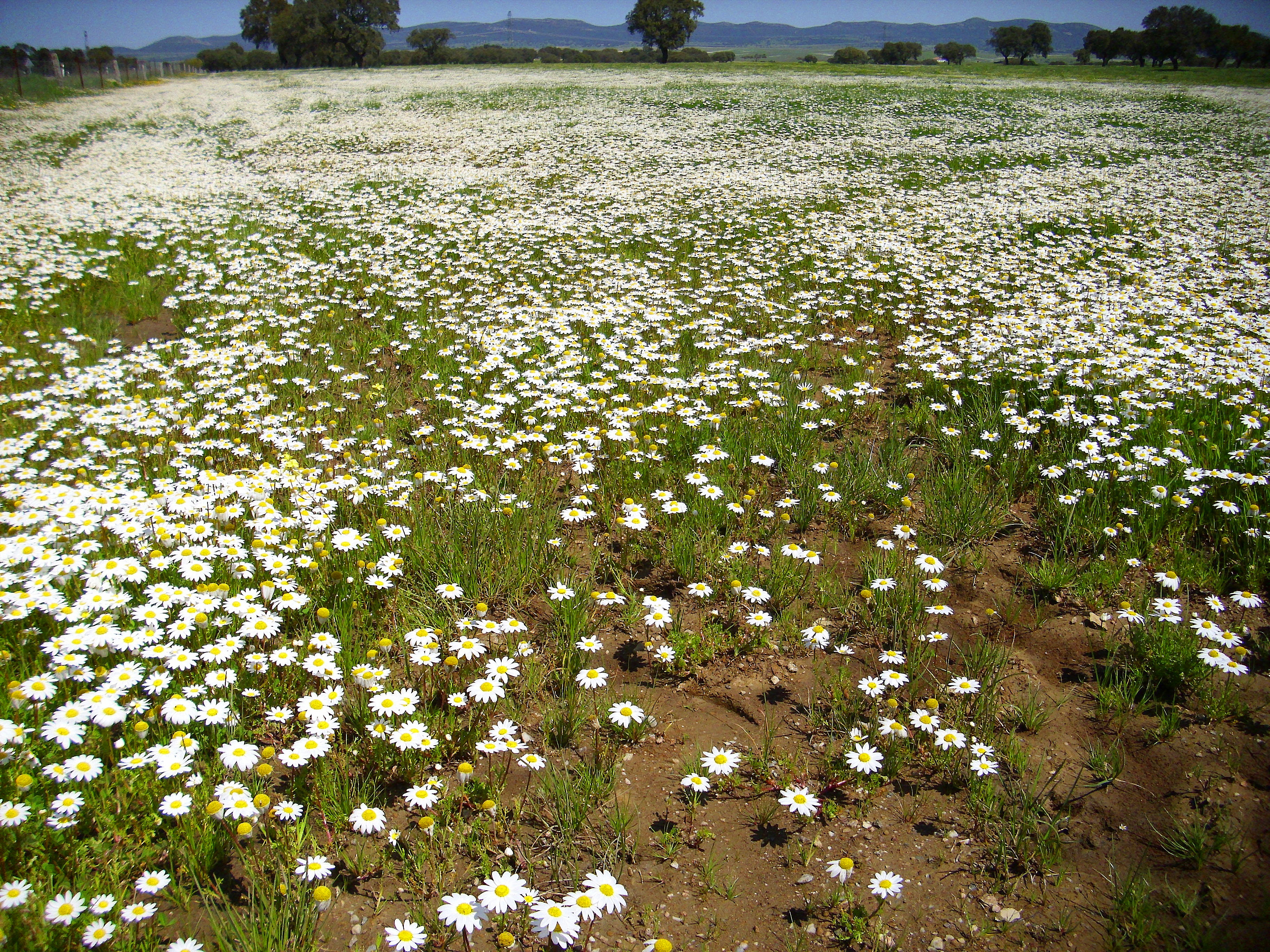 Anthemis vulgaris in Valle de Alcudia, Sierra Madrona, Spain